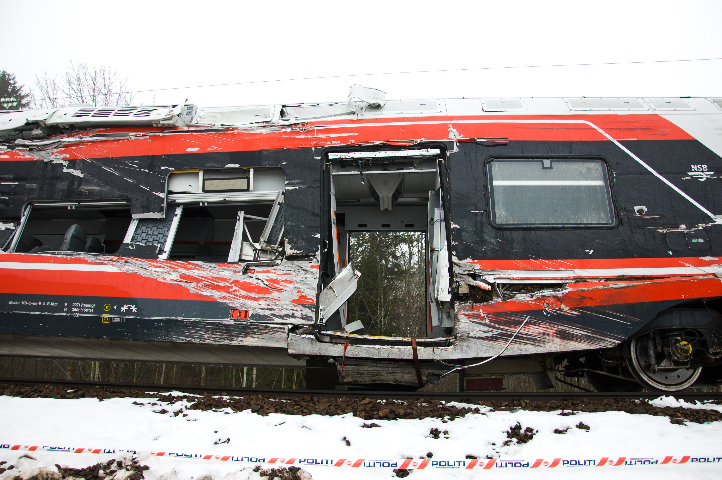 A brand new NSB train derailed at Tangenbekken in Re, Vestfold, Norway on February 15th, 2012.